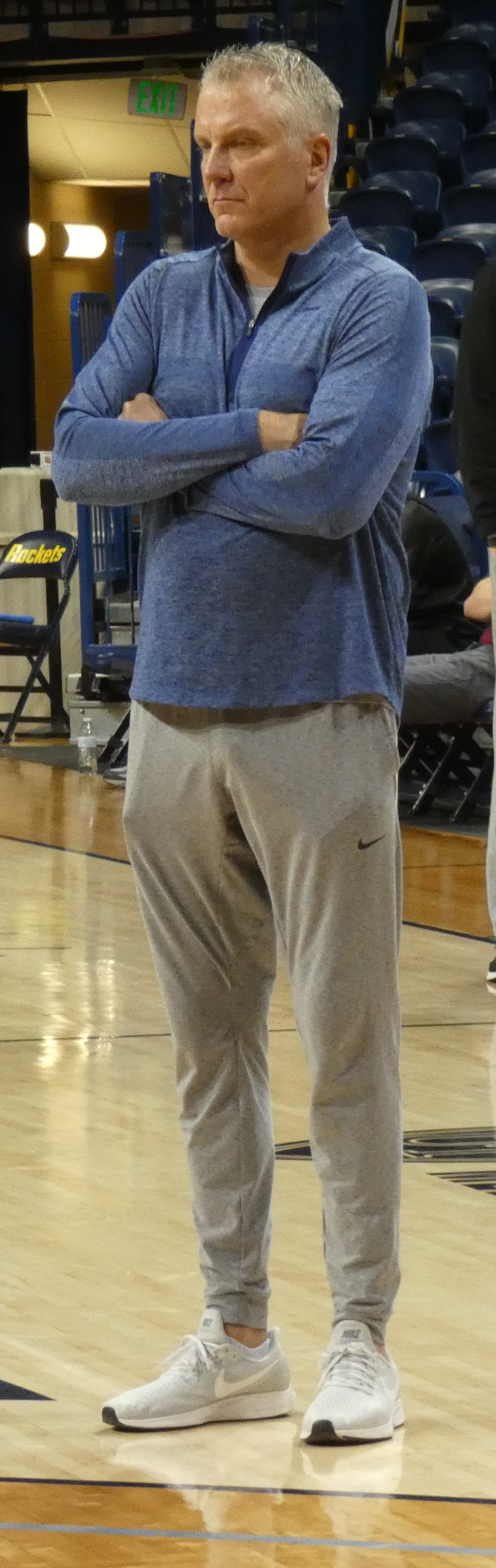 Tod Kowalczyk, head coach for the Toledo Rockets Men's Basketball team.